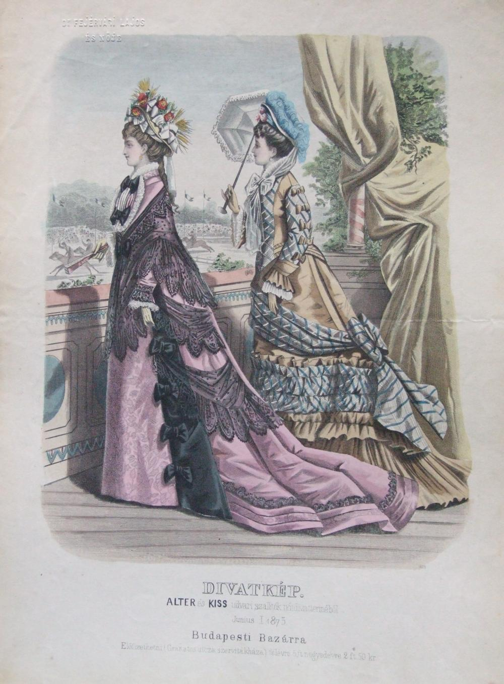 Historical Fashion Images of Alter és Kiss Designs